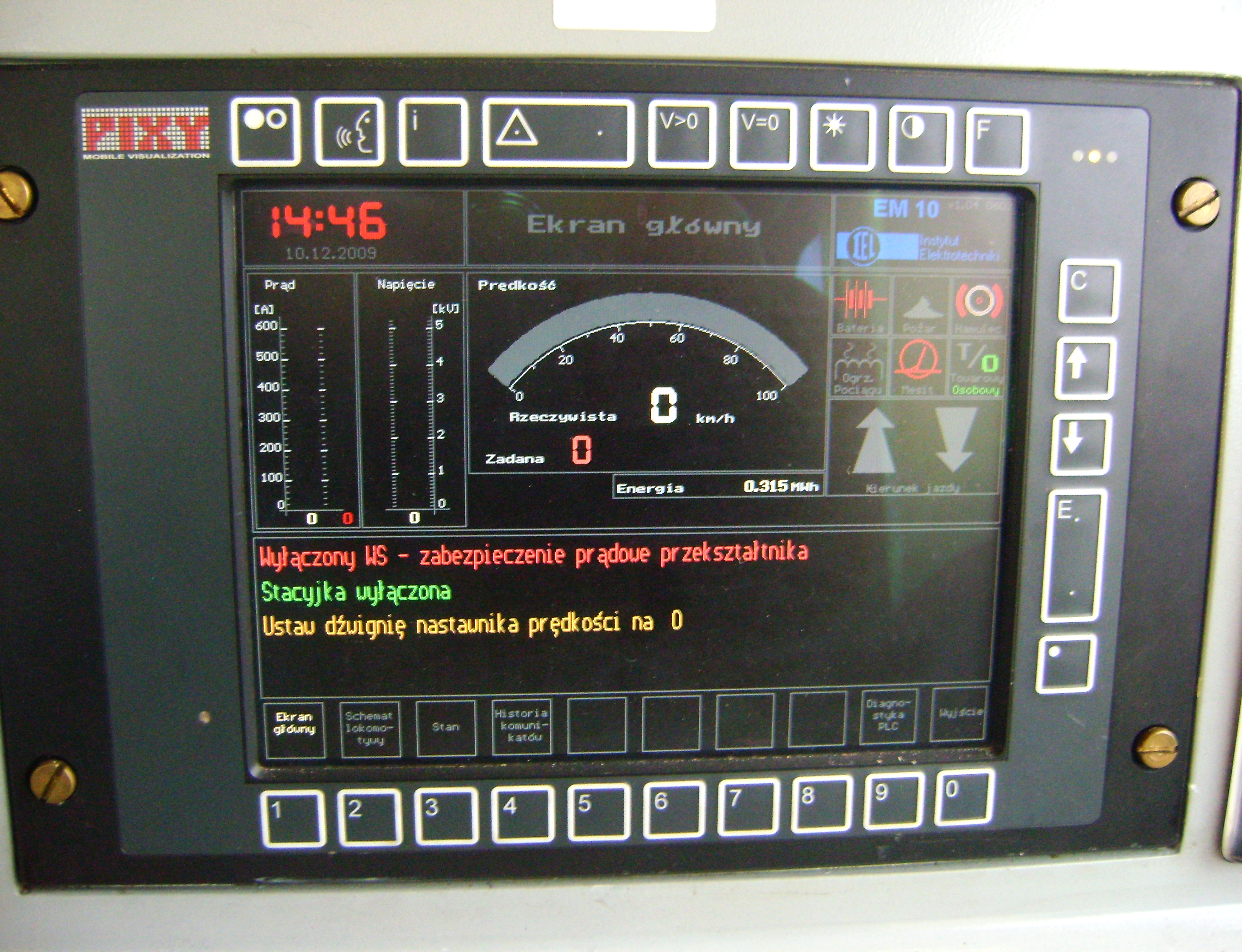 Main display in PKP Class EM10 electric shunting locomotive